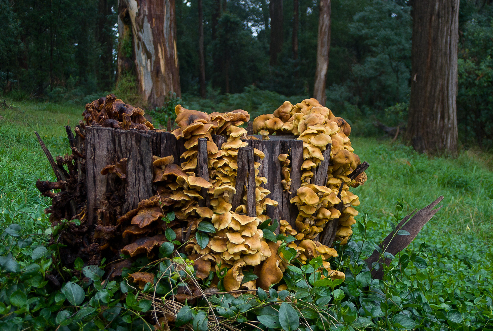 A cluster of fruit bodies of the fungus Armillaria luteobubalina. Photographed in Dandenong Ranges National Park, Victoria, Australia.